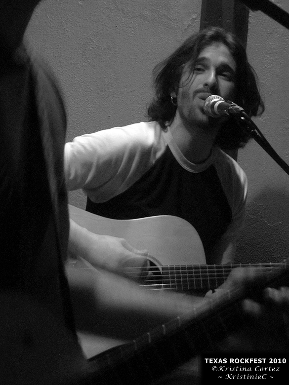 Deadbeat Darling performing at Mugshots - March 18, 2010